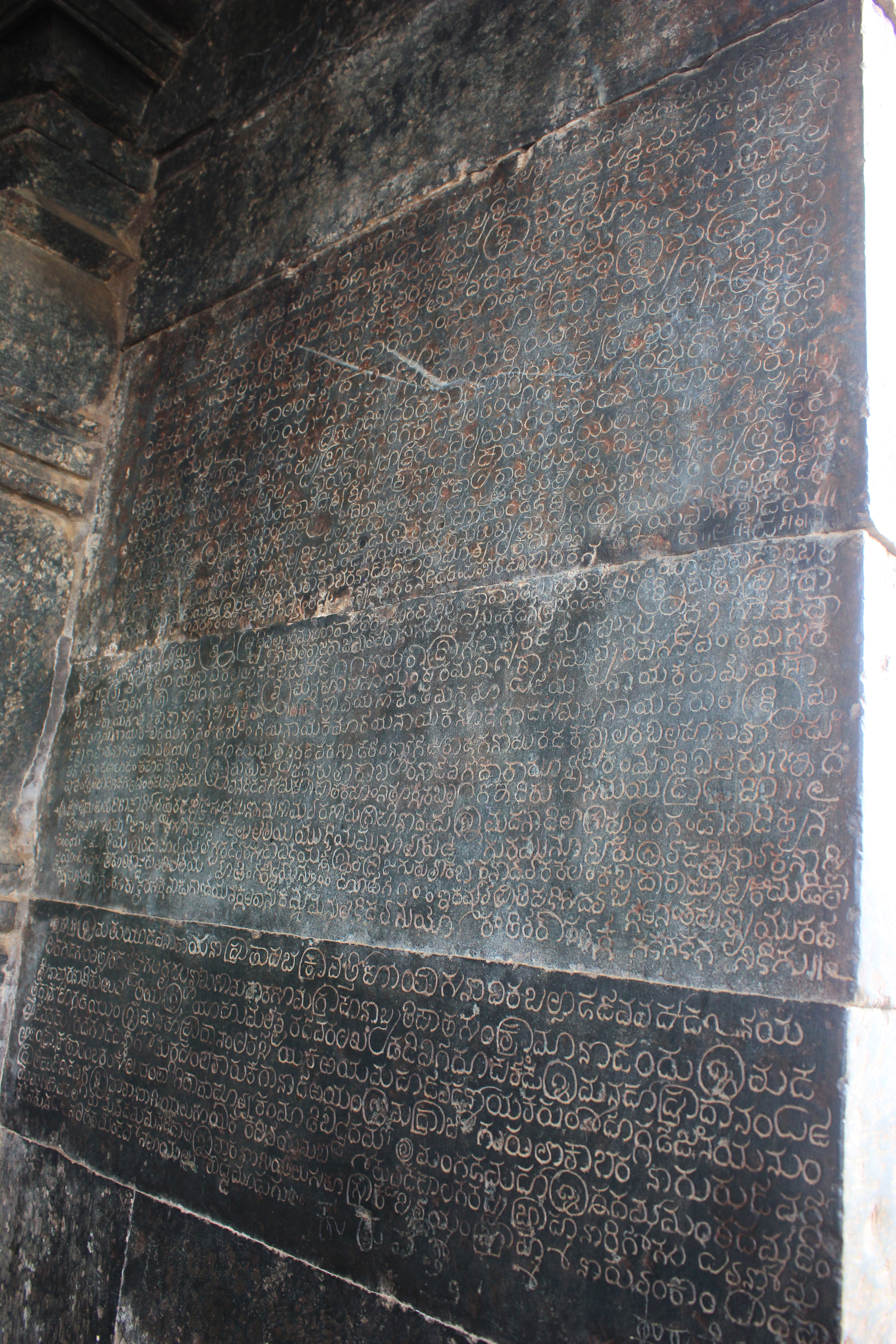 This photograph of an old Kannada inscription of Hoysala King Veera Ballala II, dated 1197 A.D., was taken by me at the Mallikarjuna temple at Kuruvatti (also spelt Kuruvathi) in Karnataka state, India. This ornate temple is a fine example of 11th century Western (Kalyani) Chalukya architecture. Source:South Indian Inscription, Volume IX, Kannada Inscriptions from Madras Presidency, Miscellaneous Inscriptions in Kannada, Part1, section=Hoysalas, no. 323, editors: Shama Sastry, Lakshminarayana Rao, Archaeological Survey of India, New Delhi